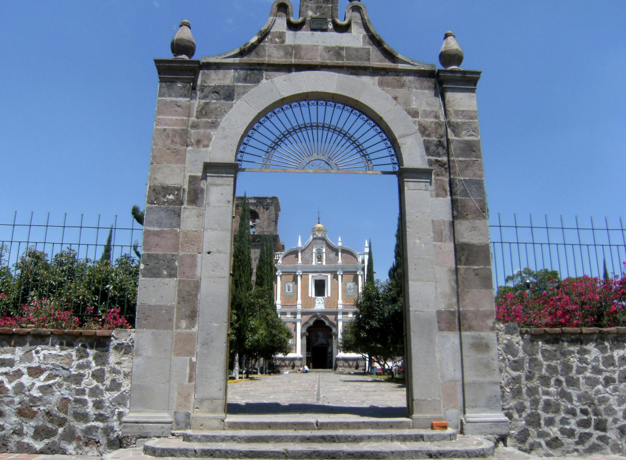 Saint Francis of Assisi Church, Tepeyanco, Tlaxcala, México